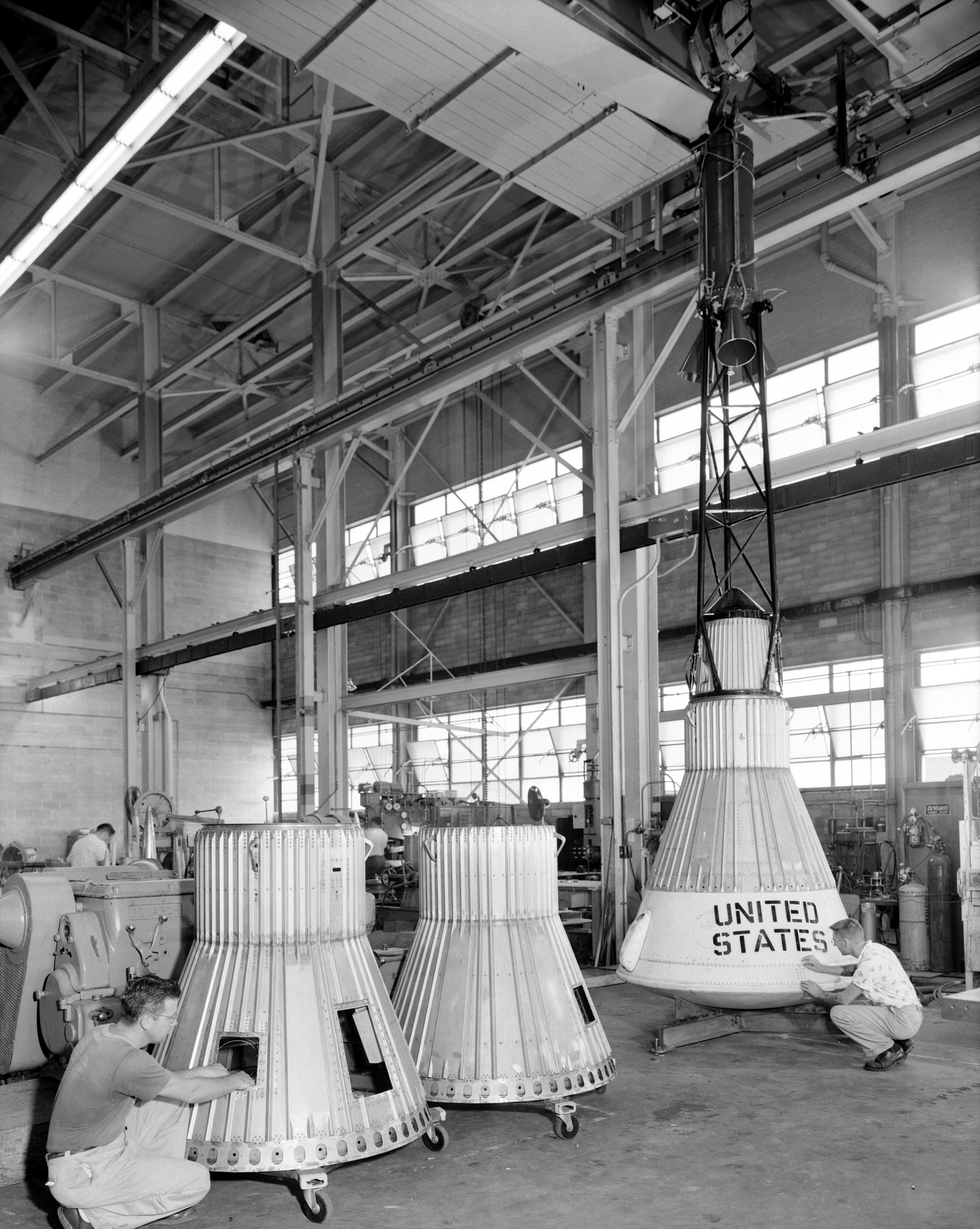 Boilerplate Mercury spacecraft being manufactured "in-house" by Langley technicians. The capsules were designed to test spacecraft recovery systems. The escape tower and rocket motors shown on the completed capsule would be removed before shipping and finally assembly for launching at Wallops Island. Design of the Little Joe capsules began at Langley before McDonnell started on the design of the Mercury capsule.